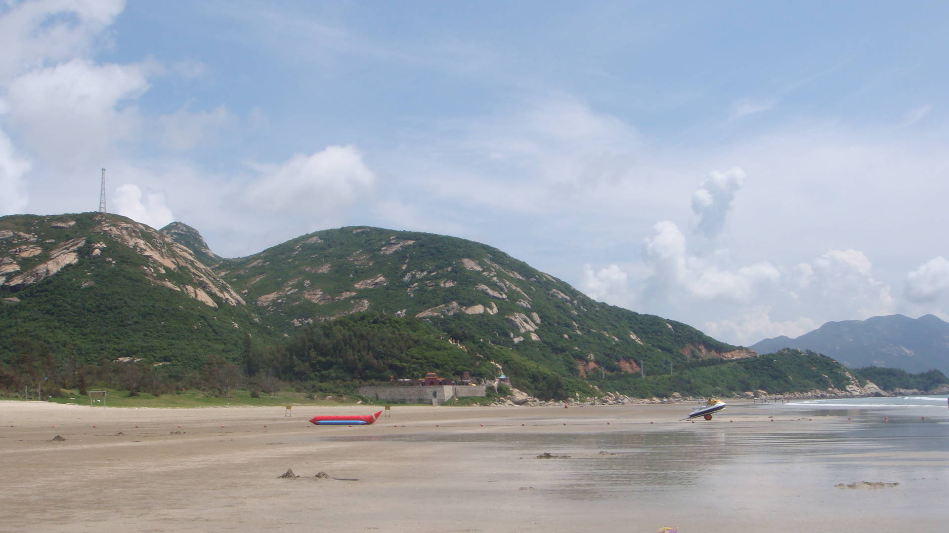 Flying Sandy Beach, Shangchuan Island, Jiangmen City, Guangdong Province, China